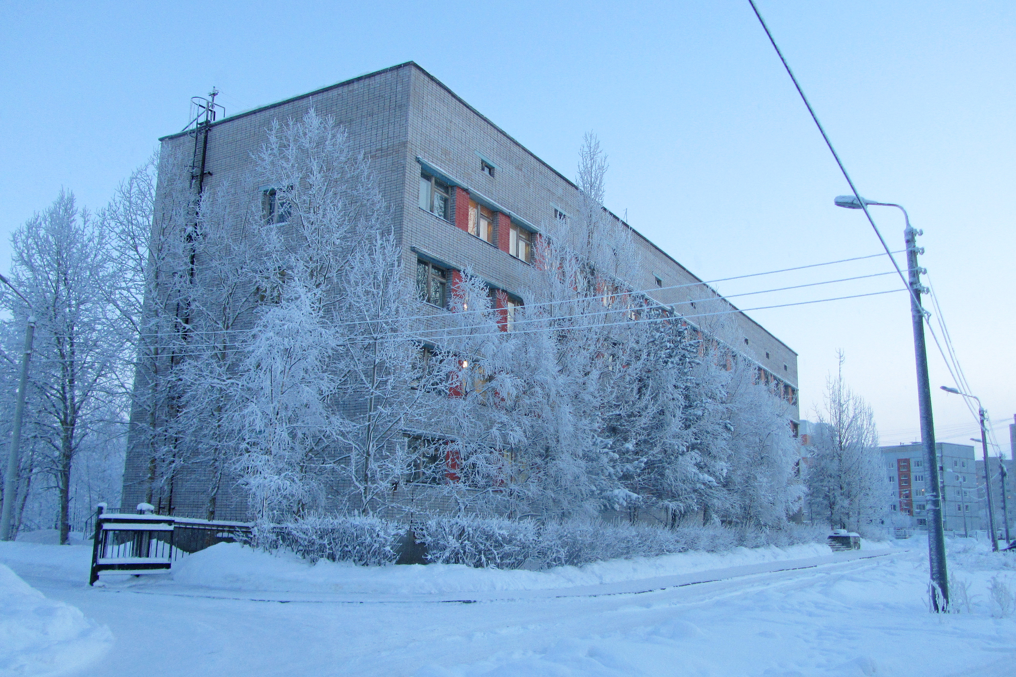 67, Morskoy Prospekt, Severodvinsk